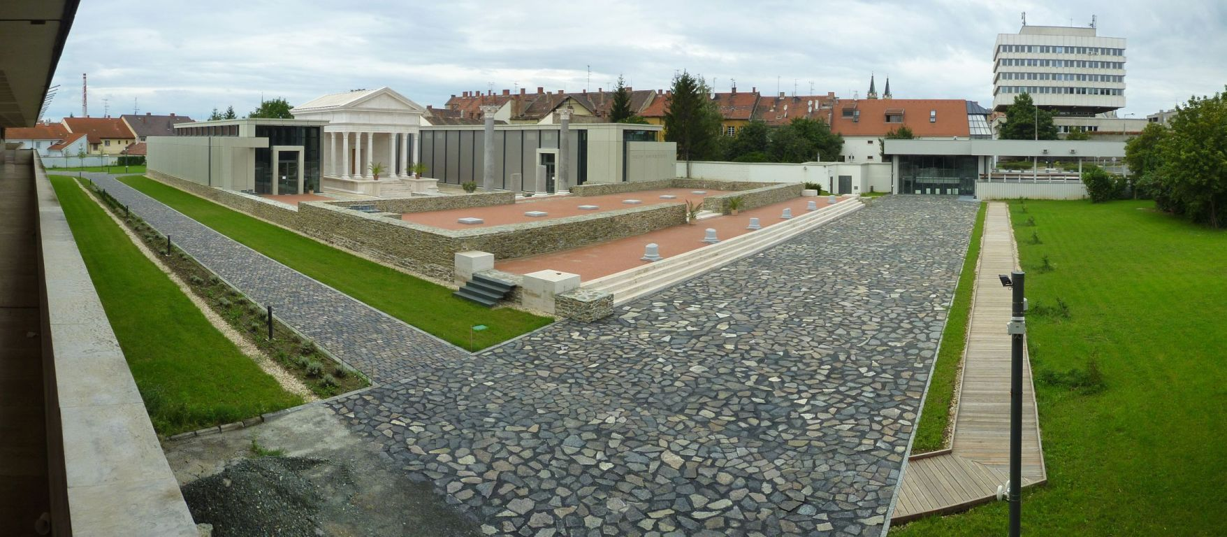 The rebuilt Roman Iseum and the Amber Road in Sabaria (present day Szombathely in Hungary)